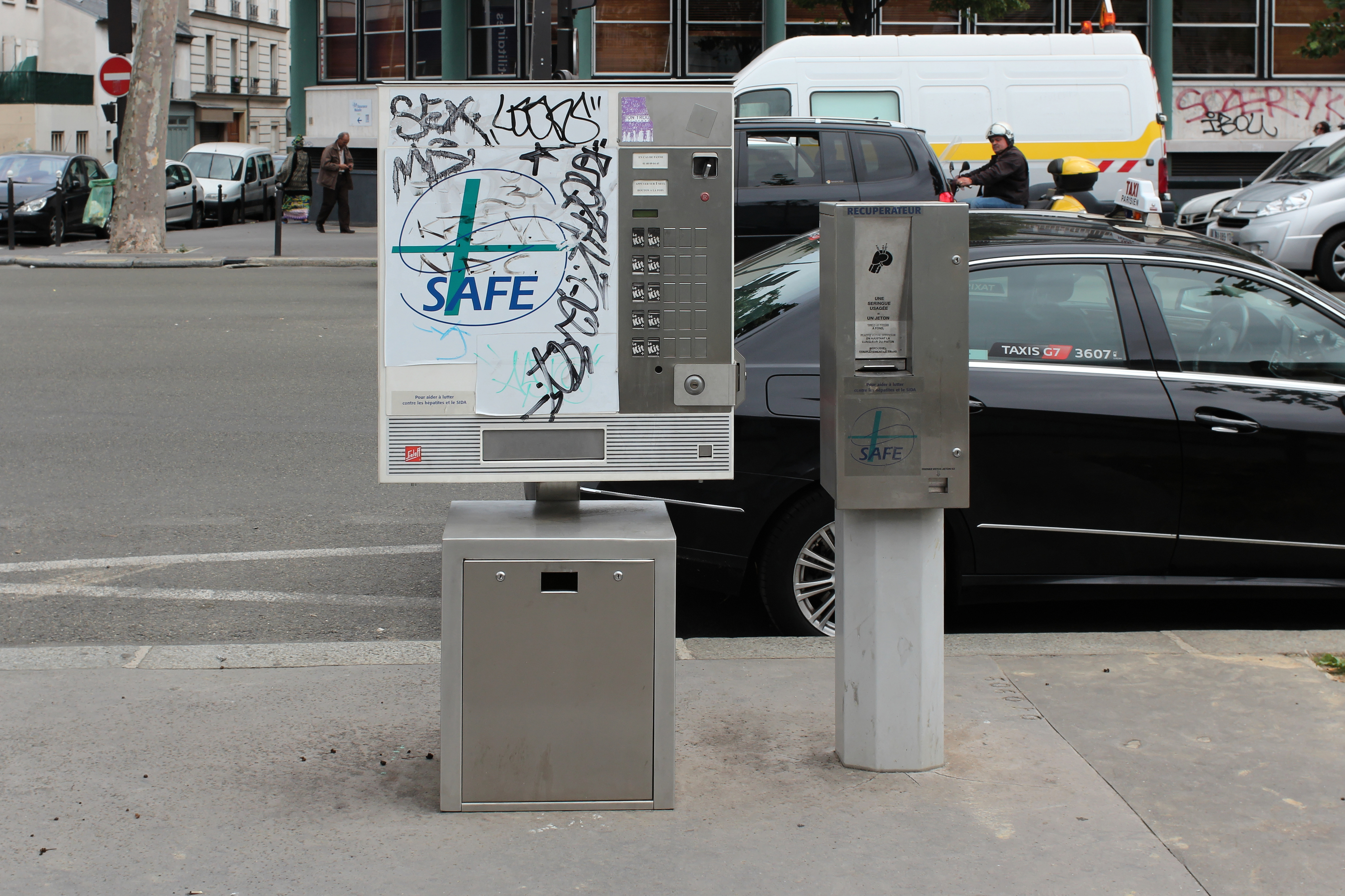 Needle exchange point located Rue du Faubourg-Saint-Martin, near Rue du Terrage. Automatic recovery of used syringes (right) and distribution of sterile syringes (left) of the SAFE Association.